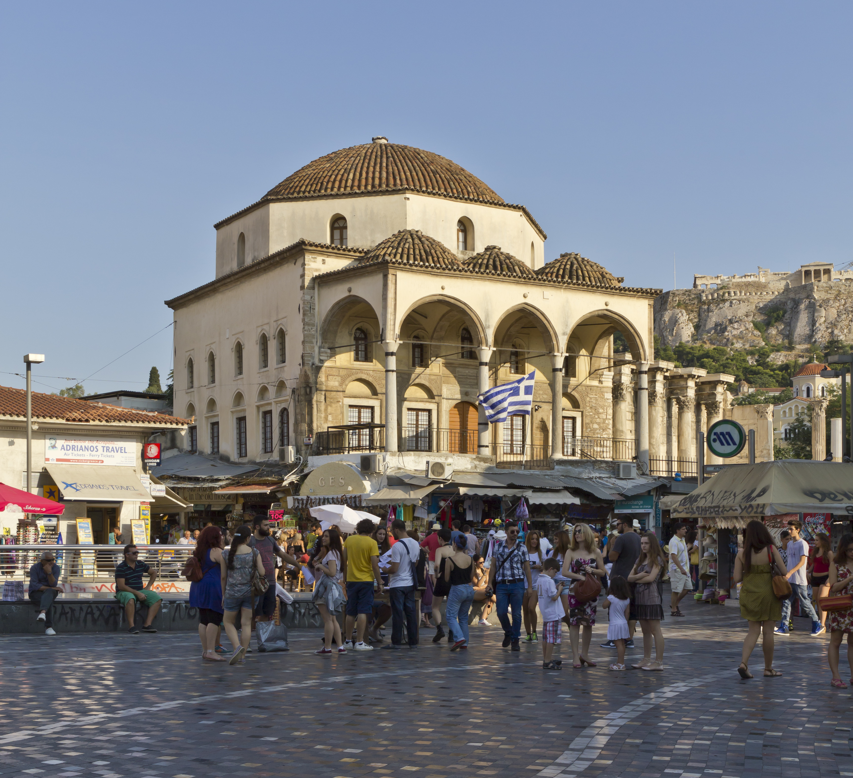 Monastiraki Square and Old Mosque in Athens (Attica, Greece)